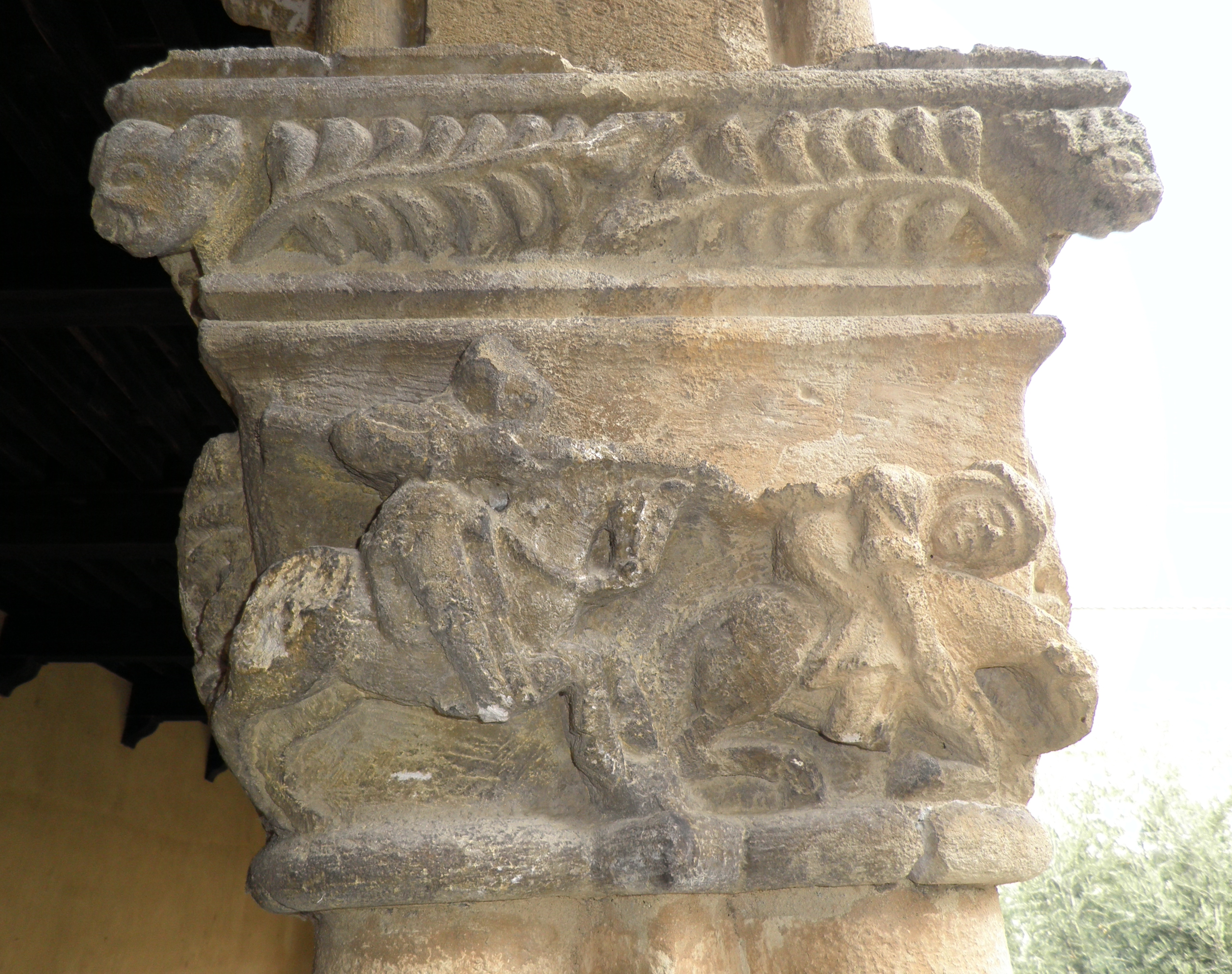 Side B of 16th capital in western corridor of the church of Santa María la Real de Nieva, Segovia province, Spain. War scene; Christian knight killing Muslim knight.